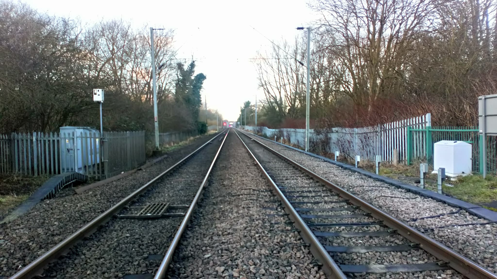 My own.